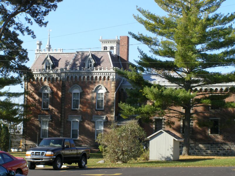 Historic old jail in Noble County, Albion